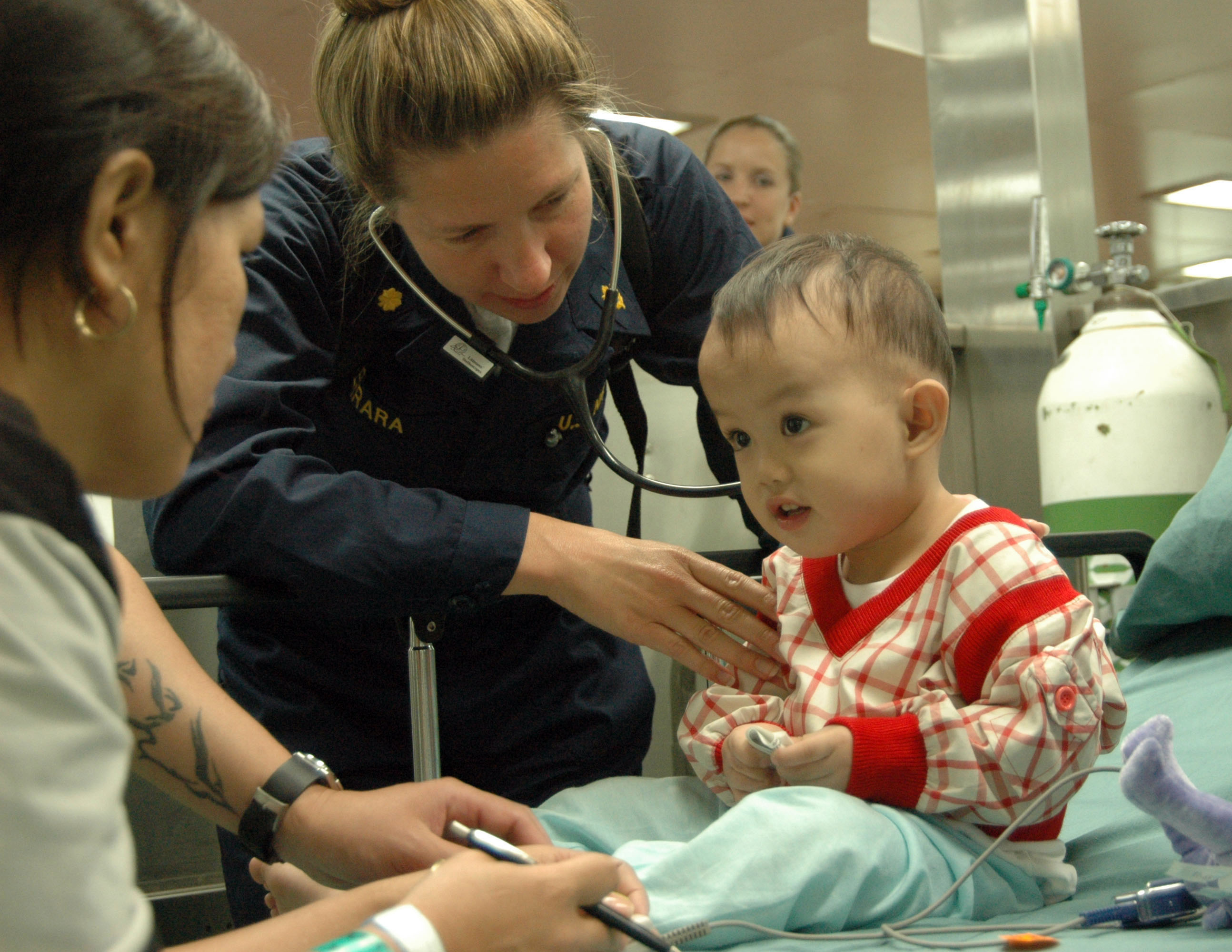 Zamboanga, Republic of the Philippines (May 27, 2006) - Navy Lt.Cmdr. Elizabeth Ferrara, pediatrician, checks a young boy’s vital signs onboard the hospital ship USNS Mercy (T-AH 19). Mercy's visit to Zamboanga will provide a multitude of medical, dental and veterinary care for the people who live in this region. This care is provided by a portion of Mercy's staff working side by side with their Filipino counterparts at several medical centers in the city, as well as patients being given care on the ship itself. Mercy's port visit in Zamboanga is the first of many, during its humanitarian deployment to South and Southeast Asia, and the Pacific Islands. Mercy is able to rapidly respond to a range of situations on short notice and is capable of supporting medical and humanitarian assistance needs with special medical equipment and a multi-specialized medical team, providing a range of services ashore as well as aboard the ship. The medical staff is augmented with an assistance crew, many of whom are part of non-governmental organizations that have significant medical capabilities. U.S. Navy photo by Journalist Seaman Ryan Clement (RELEASED)